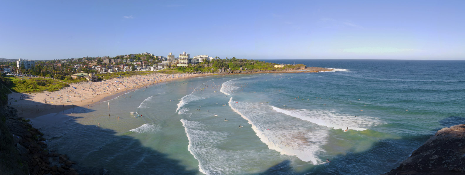 01/01/2012 A panorama of Freshwater Beach.